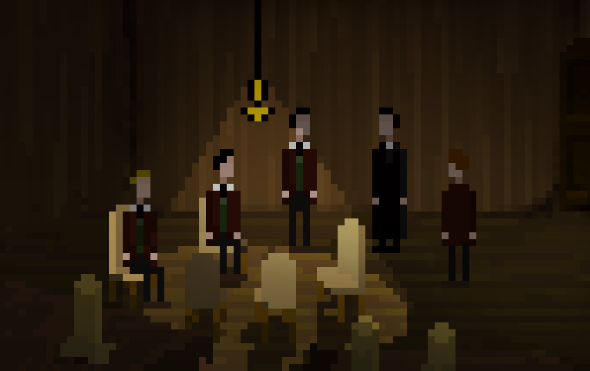 image created using the assets from here released to Commons.